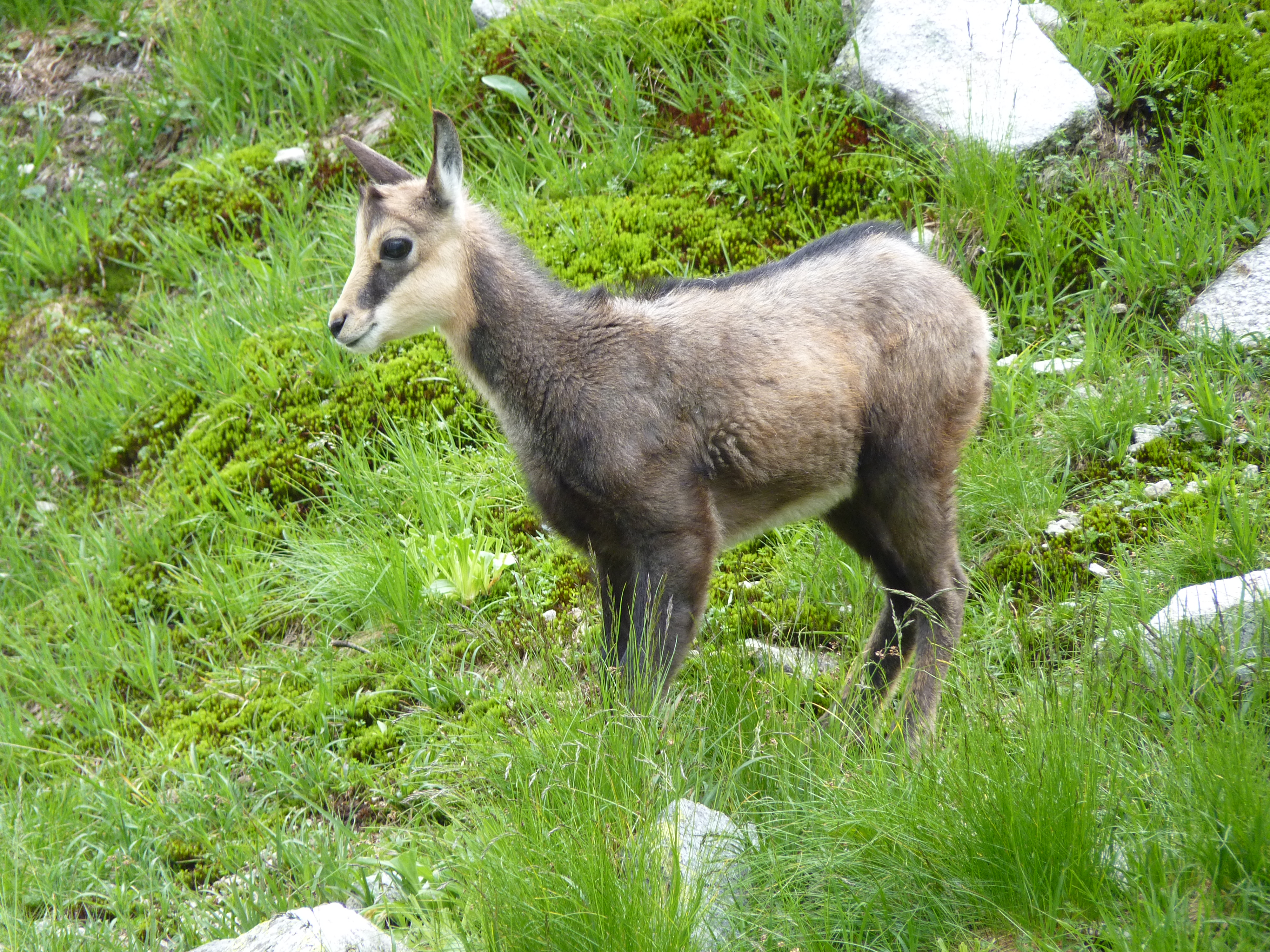 Dolina Bielej vody - path from "Zelene pleso" to "Jahnaci stit", High Tatras, Slovakia